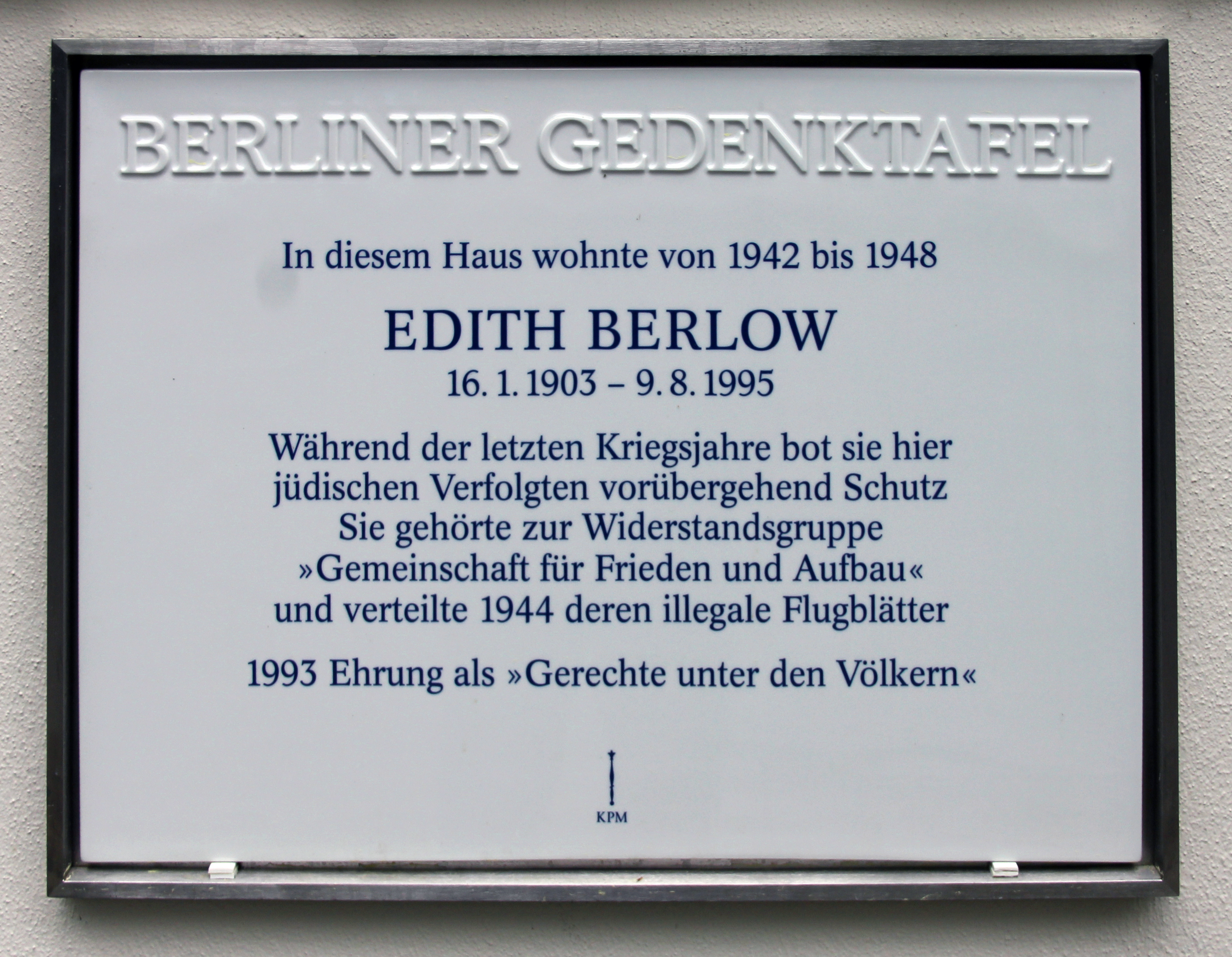 Berlin memorial plaque, Edith Berlow, Menzelstraße 9, Berlin-Grunewald, Germany